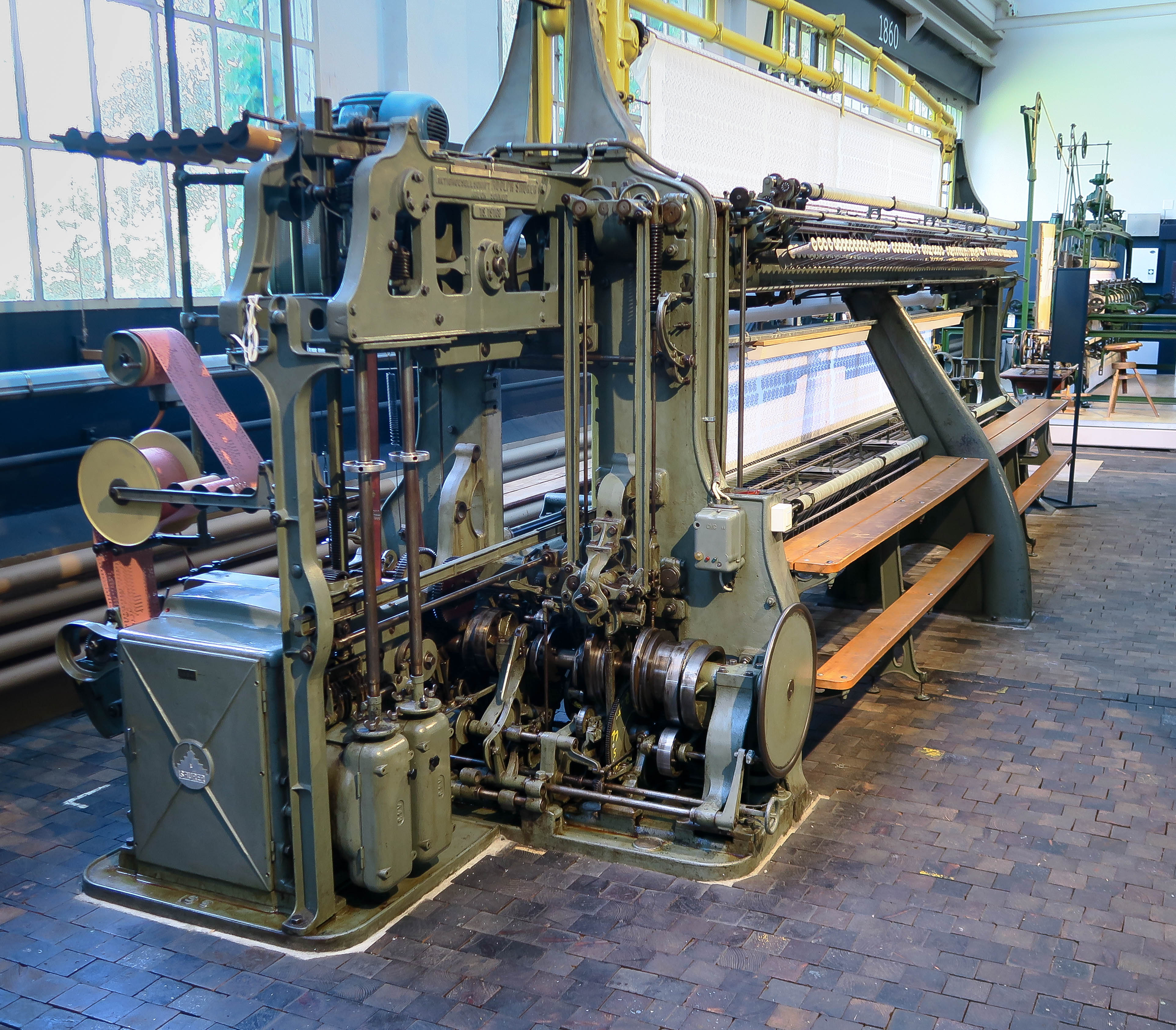 Front side of early 20th century, fully automated, schiffli embroidery machine. This is a Saurer machine. The card reader was added about 1912 and replaced the manual operated pantograph. The card or paper tape holds information about the location of each stitch in the design as well as other machine functions.